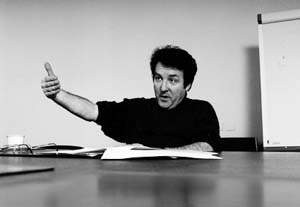 Otto Piller